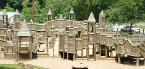 Picture of Dormont, Pennsylvania children's playground built by community volunteers with 100% donated funds and designed by the firm of Jeremy Leathers.